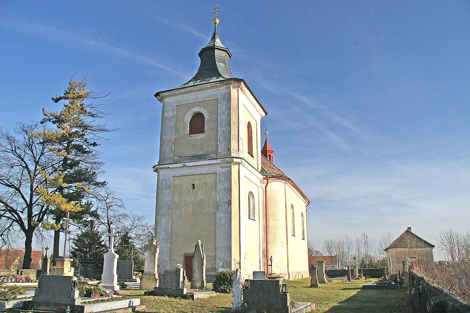 Chotěšice, Nymburk District. The Mission of the Saint Apostles church.